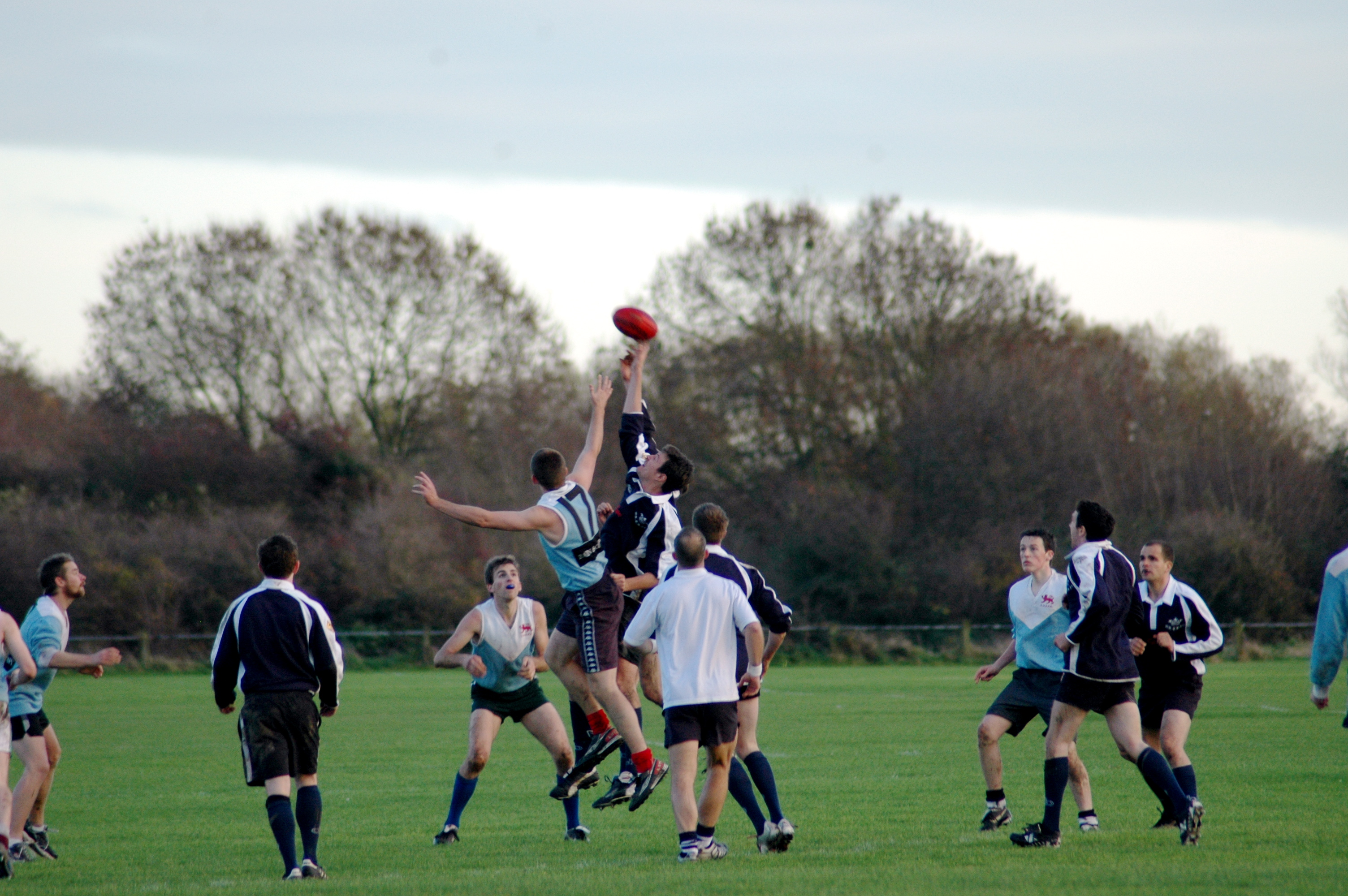 Cambridge and Oxford contest a ball up. Australian Rules Varsity